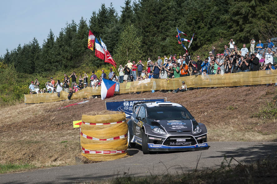 Rally Germany 2012 ADAC Rallye Deutschland,Ford Fiesta RS WRC,Kuldar Sikk,M-Sport Ford World Rally Team,M-Sport Ford WRT,Motorsport,Ott Tänak,Rally,Rallye,Rallye Deutschland,Shakedown,WRC